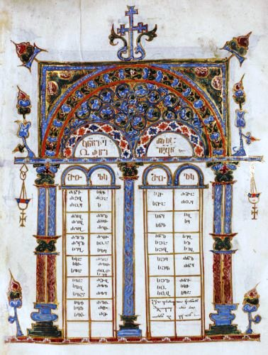 Illuminated Gospels manuscript from the Alaverdi monastery, Georgia